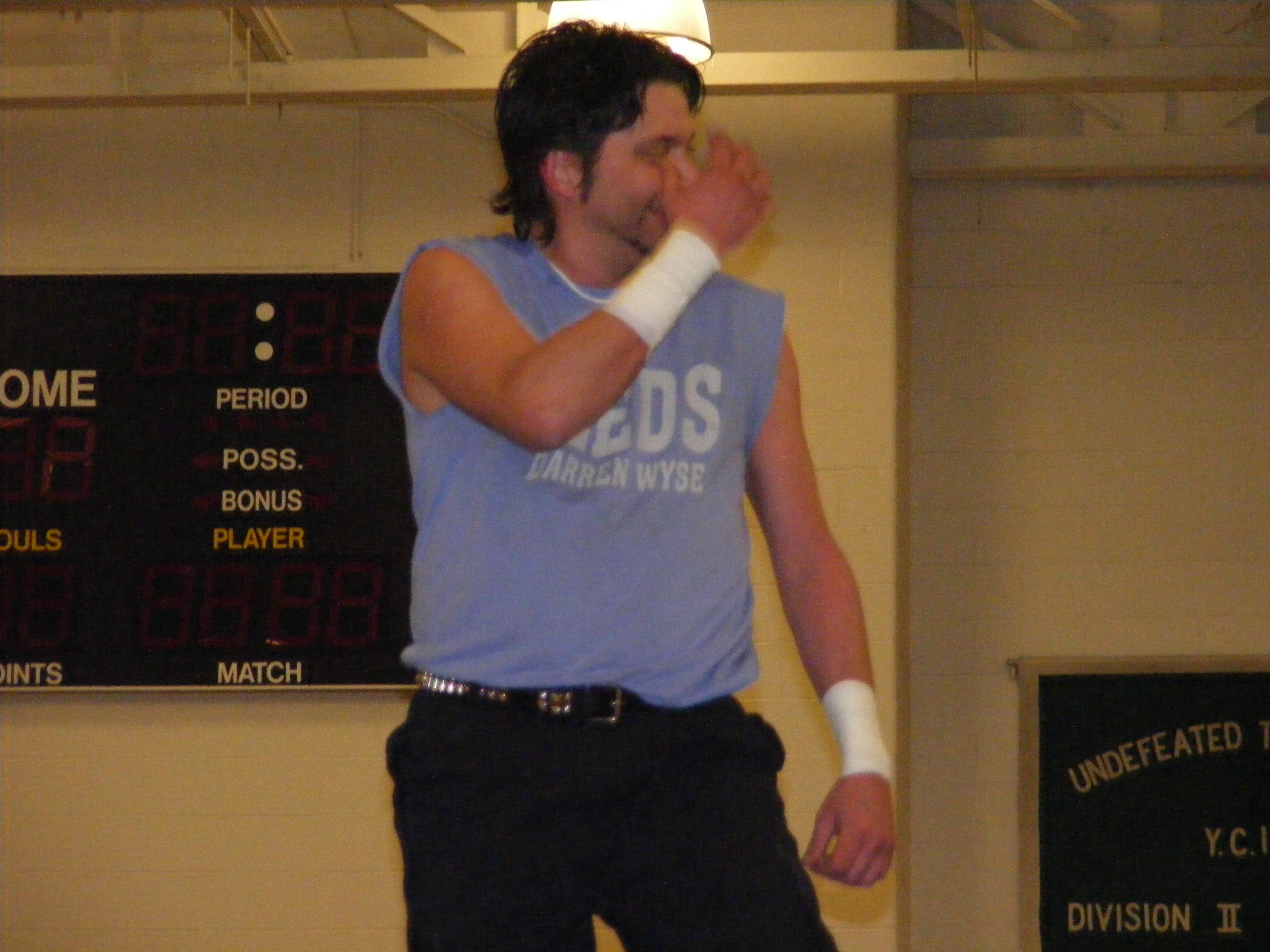 Professional wwrestler "Dirty Deeds" Darren Wyse in April 2009 at an NCW show in York, PA.